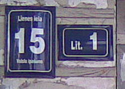 A plaque marking state property in Jurmala.